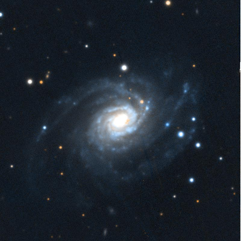 PanSTARRS image of NGC 753.